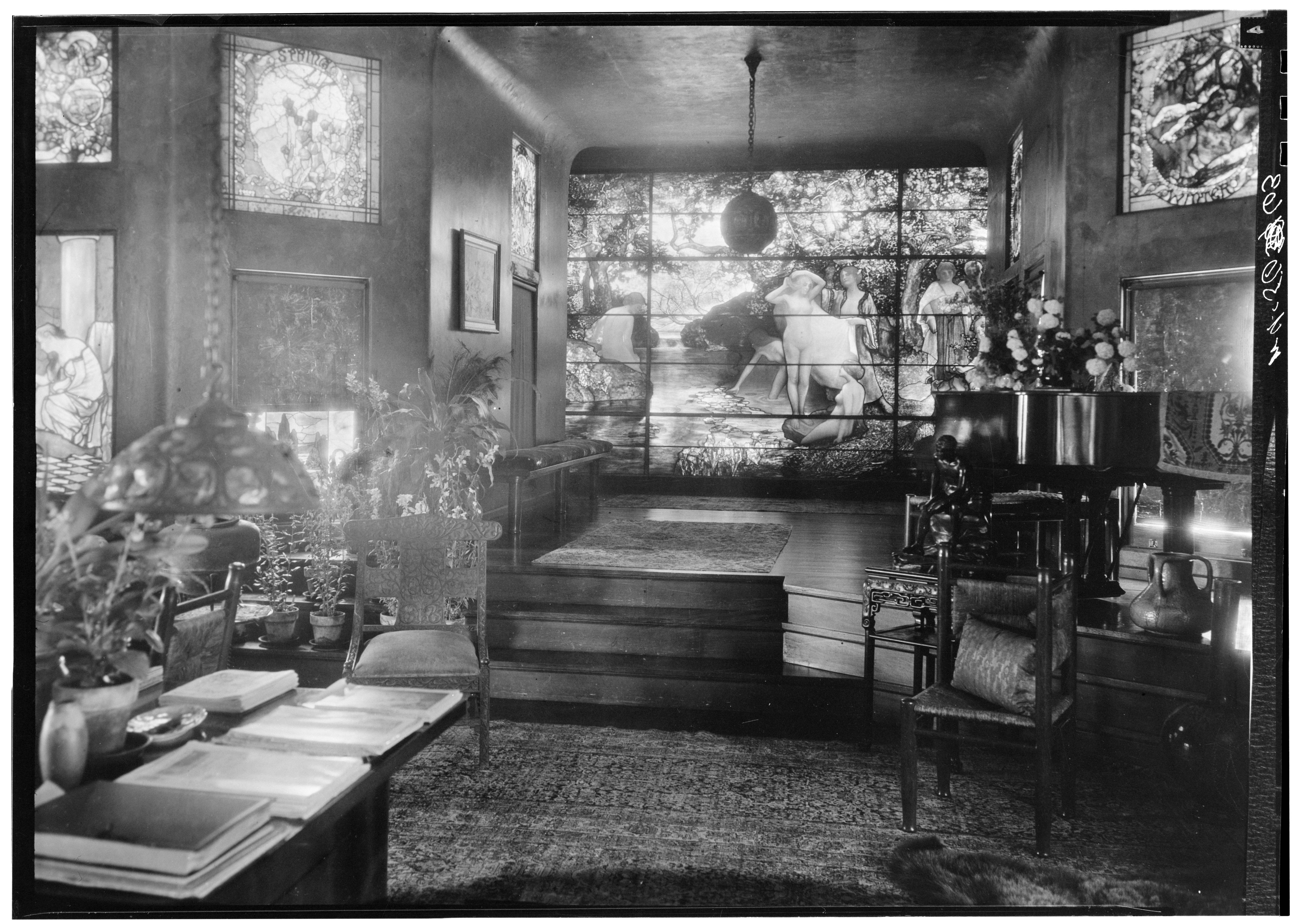 Living room of Laurelton Hall (Demolished) formerly at Laurel Hollow & Ridge Roads, Oyster Bay, Nassau County, NY Residence of Louis Comfort Tiffany Built 1905 - Burned/demolished 1957 From the Historic American Buildings Survey at the Library of Congress. David Aronow, Photographer circa 1924